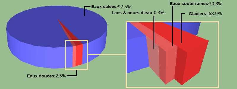 world water distribution on Earth